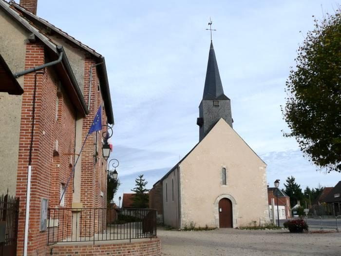 Mairie et église de Villeny